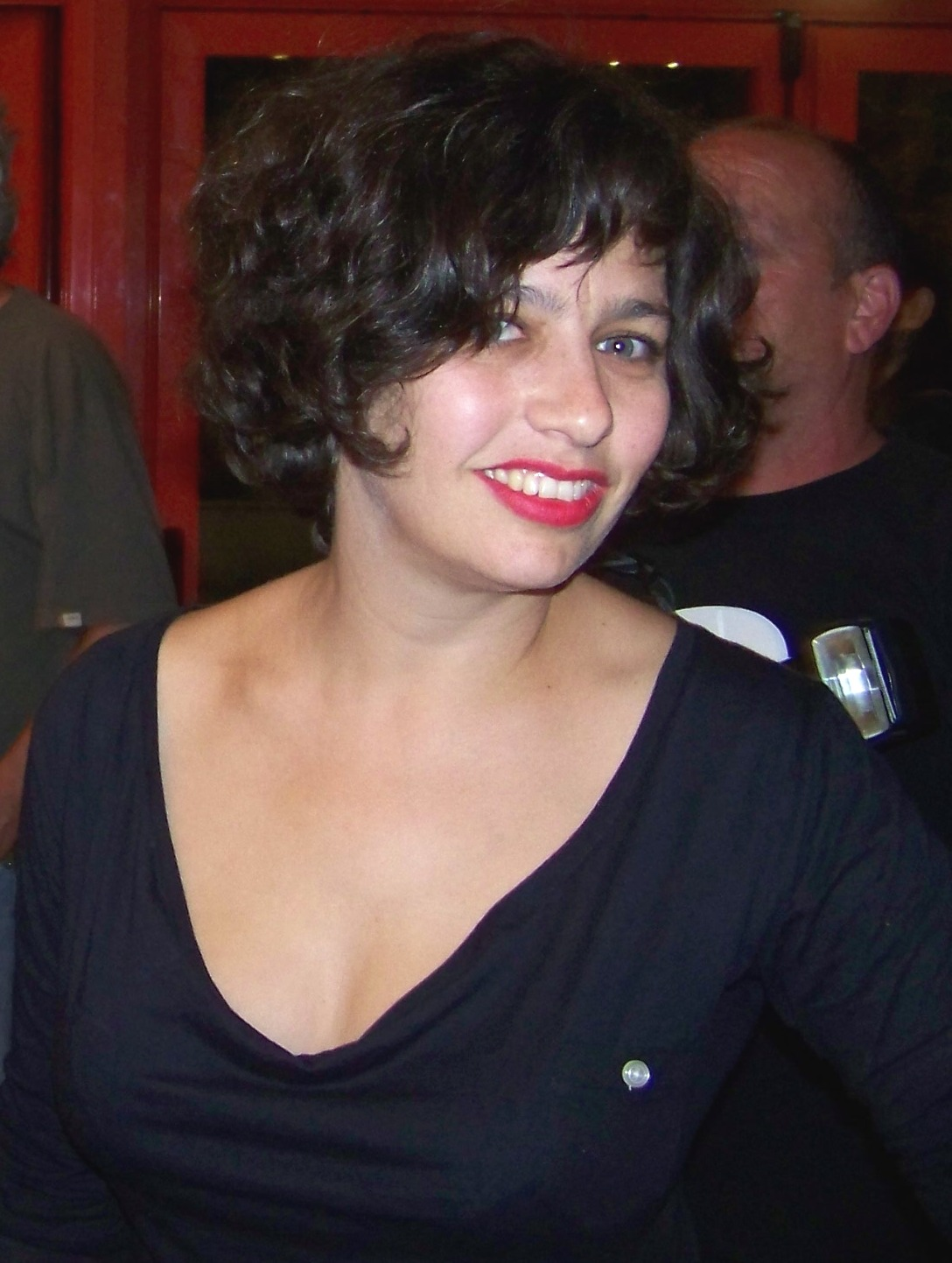 Shira Gefen